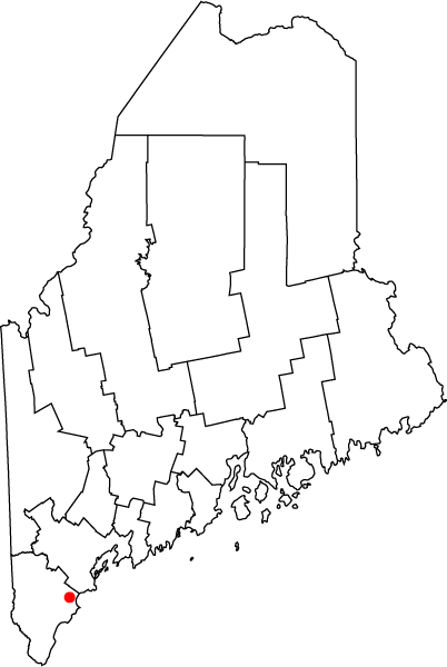 Map of the state of Maine with County Outlines, highlighting Saco.